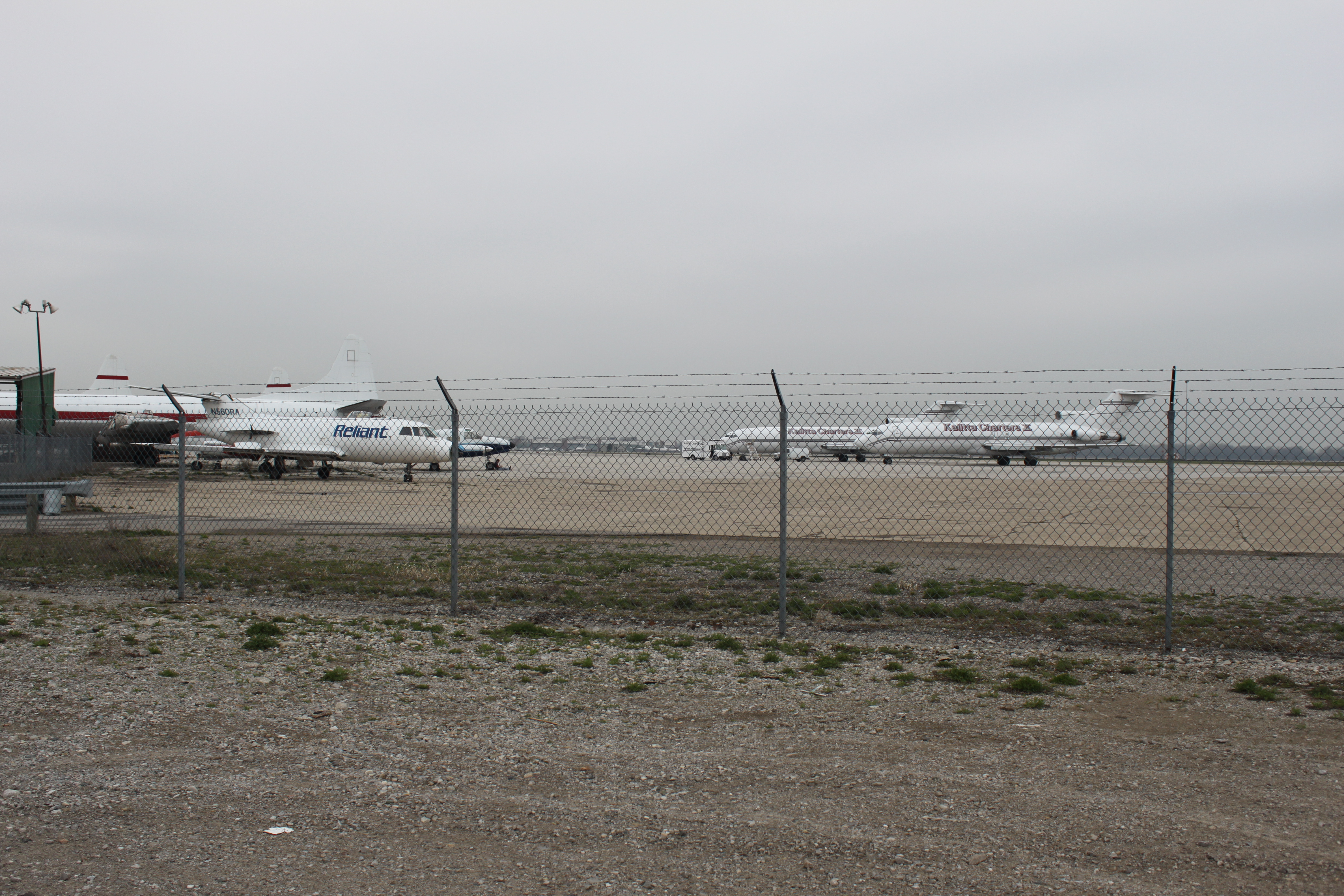 Willow Run Airport Planes on Tarmac